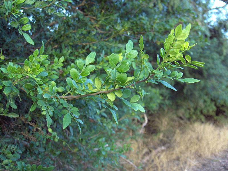 Zanthoxylum fagara, South Texas